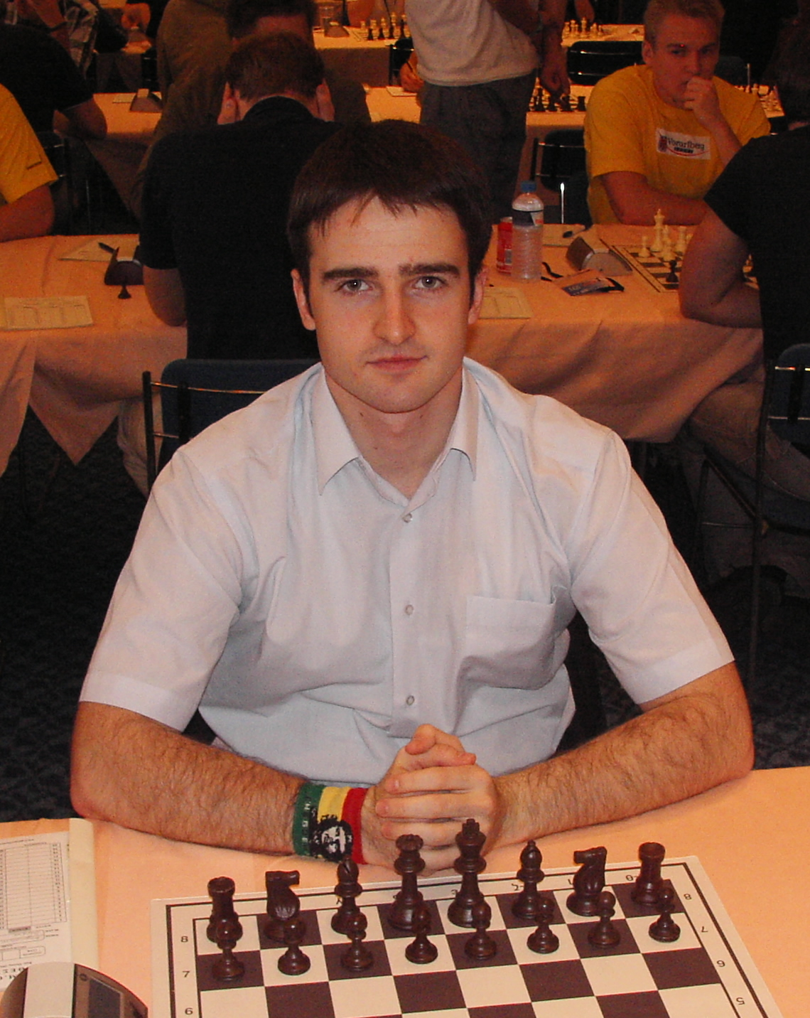 GM Ernesto Inarkiev, 24th European Club Cup 2008 Halkidiki, Greece